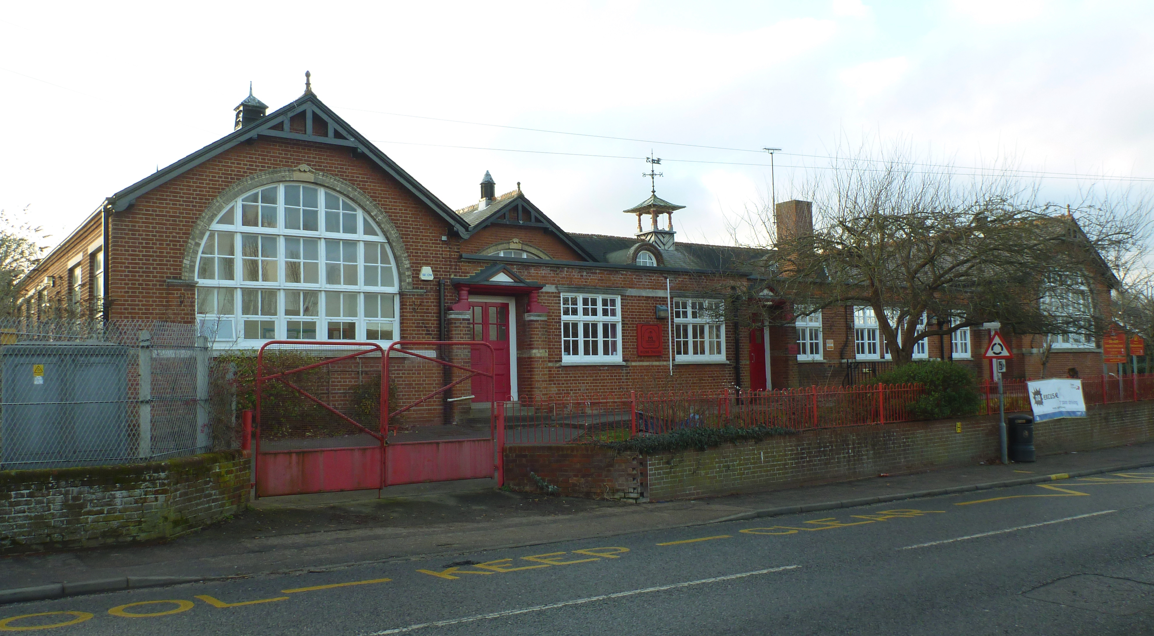 Old Heath Primary School, Old Heath Road, Colchester, Essex, CO2 8DD. This building is locally-listed, see: Colchester Historic Buildings Forum - Old Heath Community Primary School, Old Heath Road (West side). (Archived by WebCite® from the original on 8 July 2015.) (For reference purposes, information on Colchester Historic Buildings Forum can be found here., Archived by WebCite® from the original on 3 May 2015.)